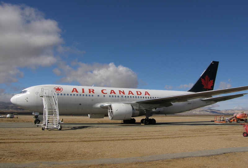 Air Canada 767 C-GAUN, fin 604, the famous Gimli Glider, in repose after retirement at Mojave. From my article on the plane at Mojave Skies, the content of which is licensed under Creative Commons